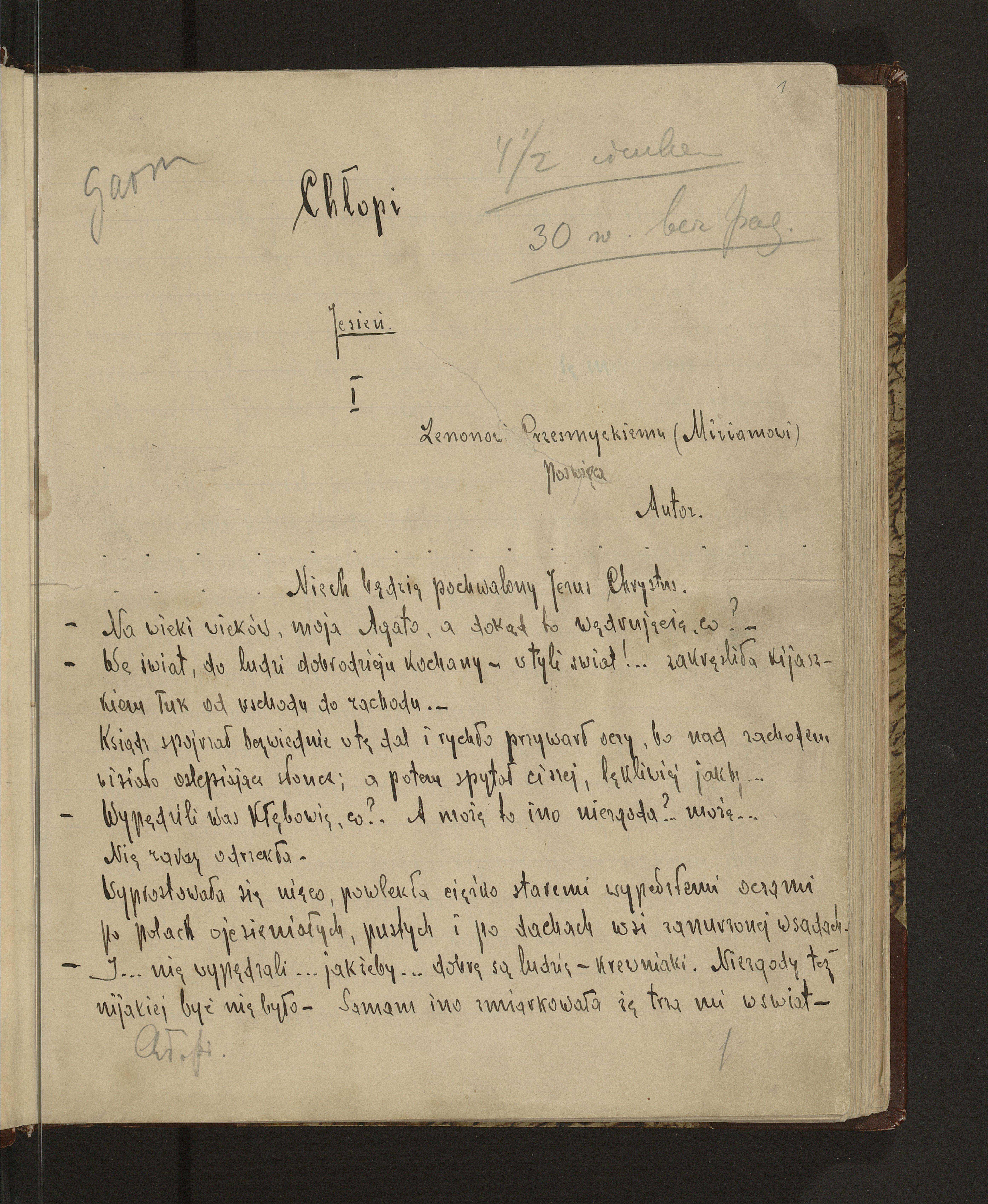 Rekopis Chlopi